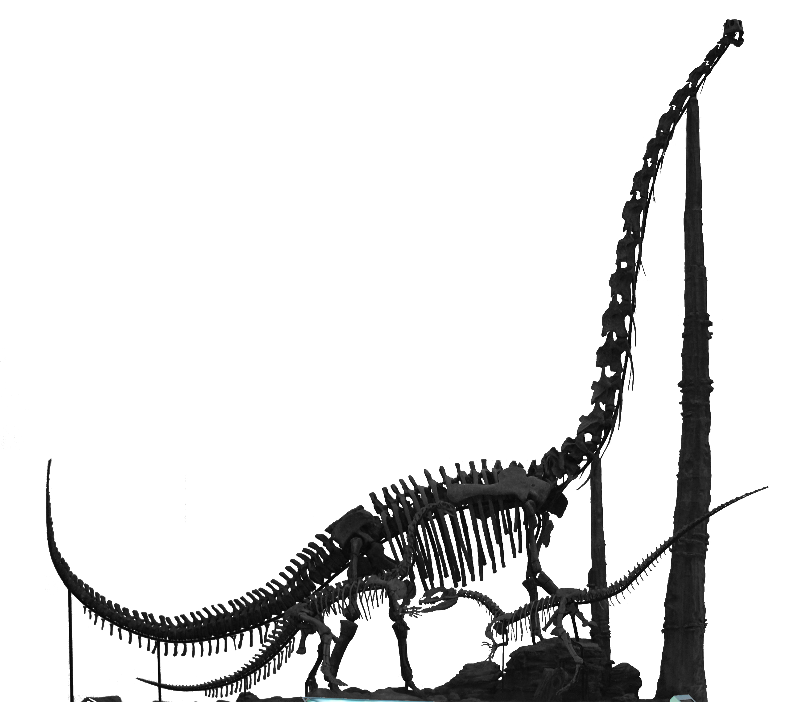 Chuanjiesaurus fossil in China Science and Technology Museum. The other two smaller suites of fossils are Lufengosaurus and Dilophosaurus.